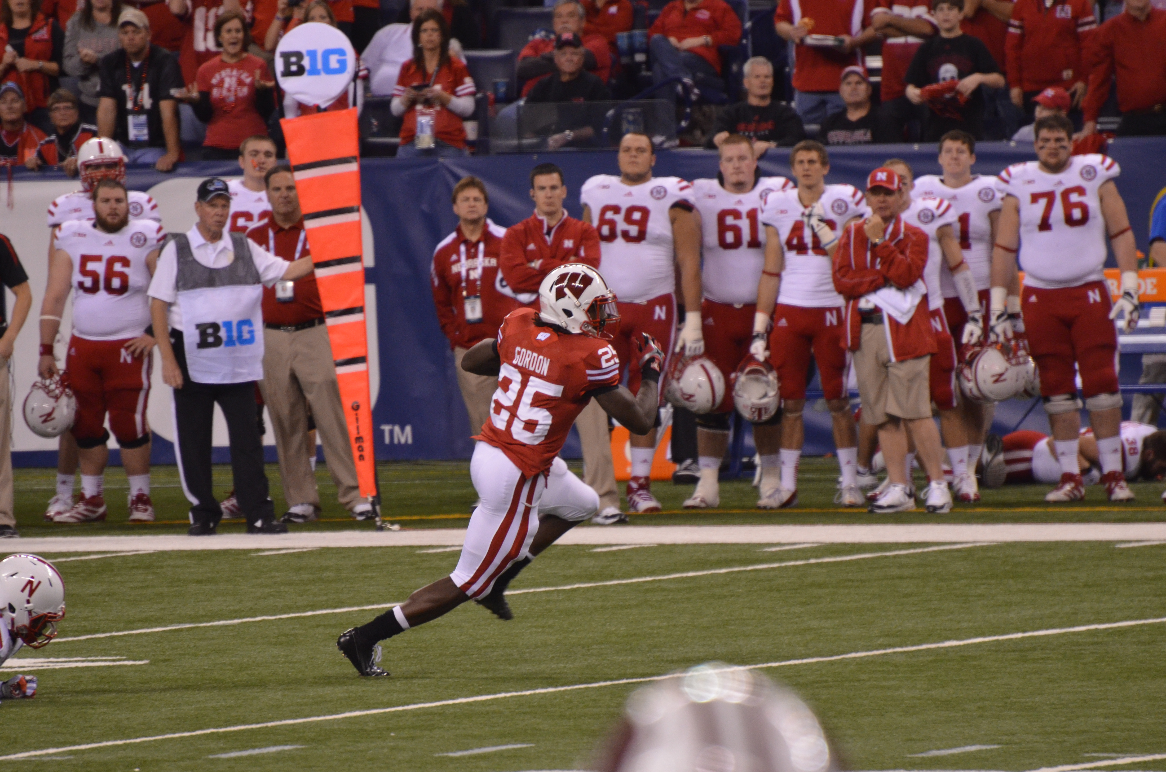 Wisconsin running back Melvin Gordon cuts left enroute to a 56-yard touchdown run in the first score of the w:2012 Big Ten Football Championship Game where Wisconsin went on to defeat Nebraska 70-31.